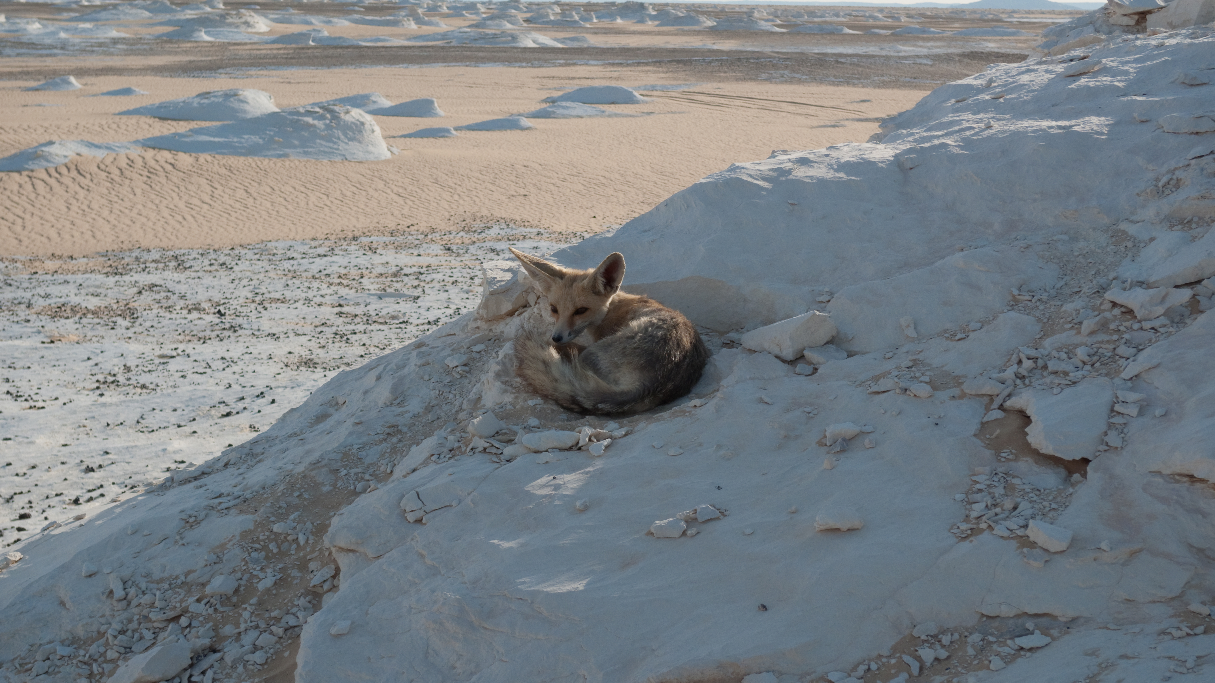 A wild Rüppell's Fox (Vulpes rueppellii) in Egypt.